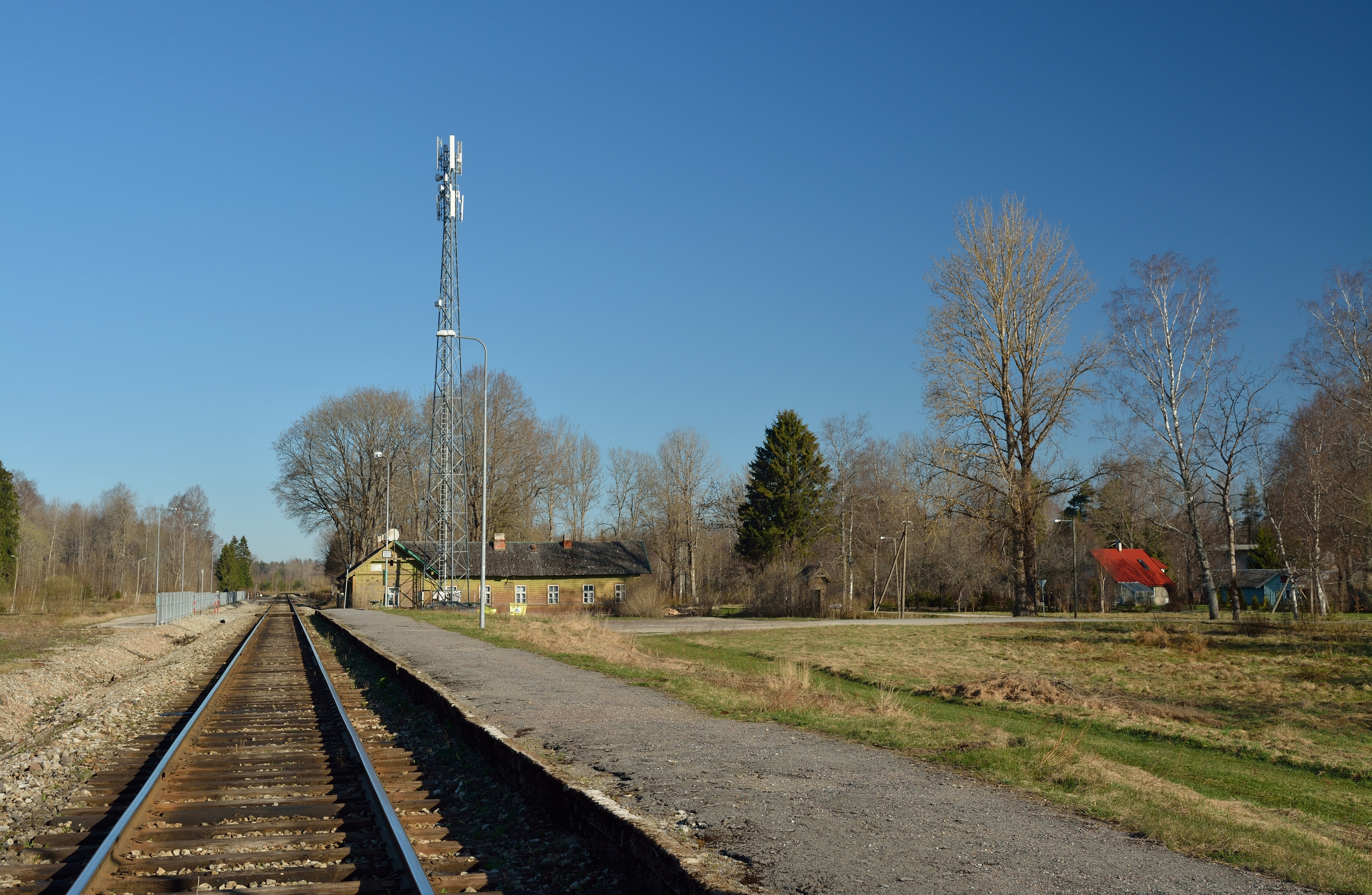 Hagudi train stop